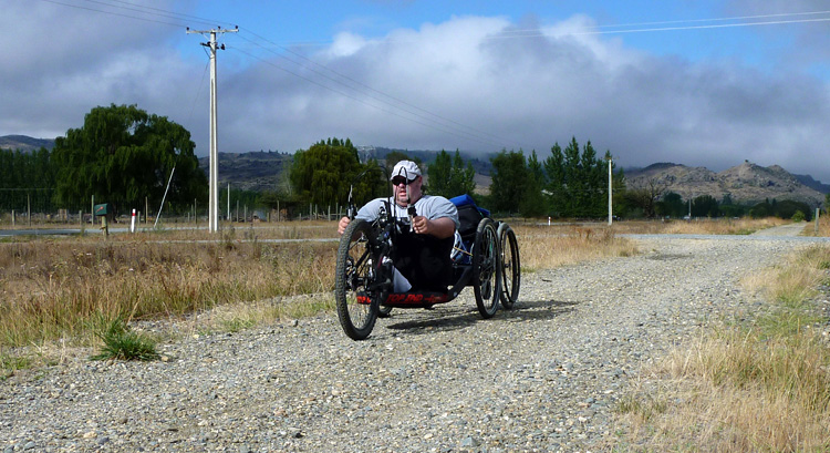 Tony Christiansen riding his handcycle on the Otago Central Rail Trail